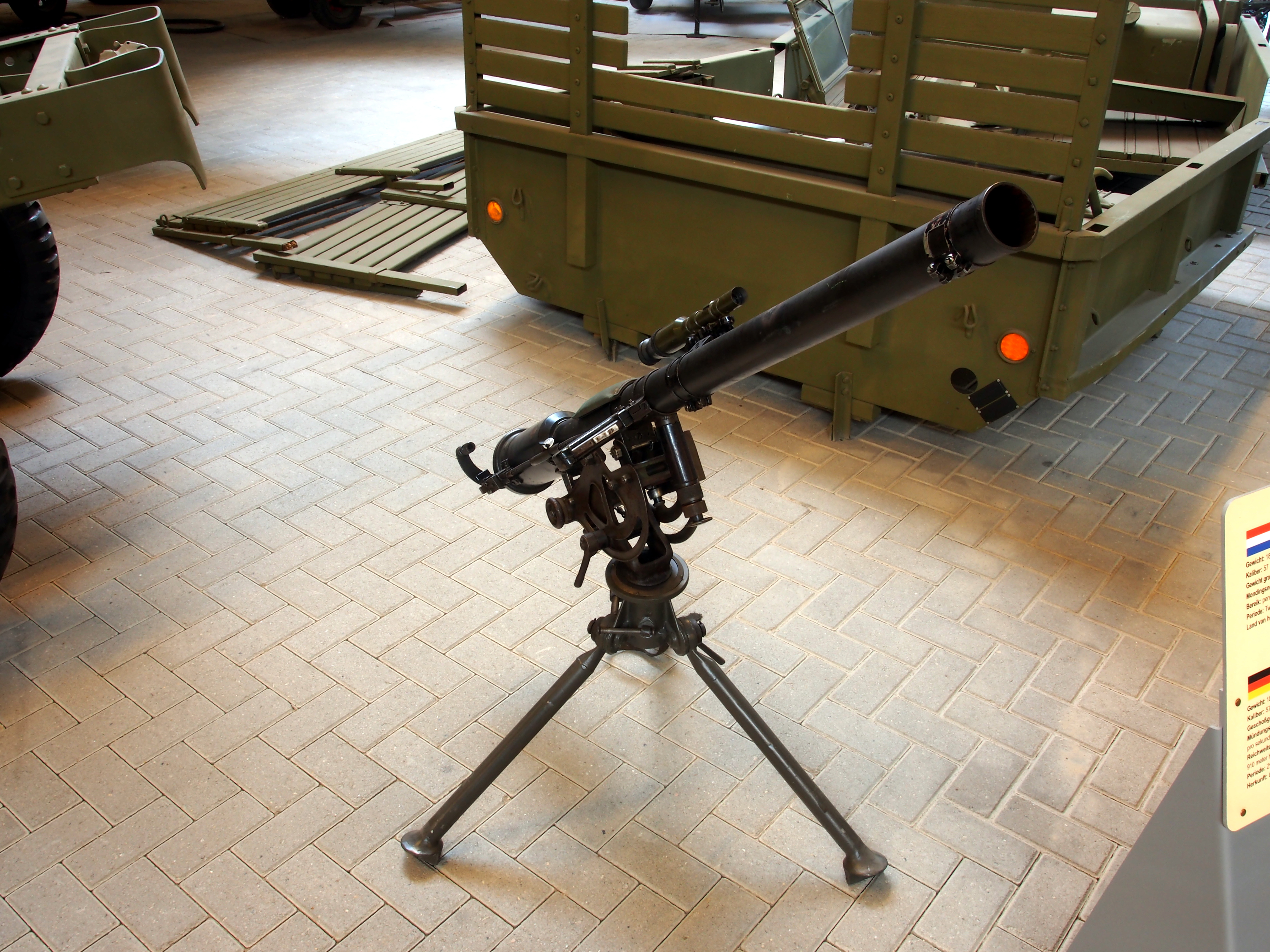 M18 57mm Recoilless Rifle